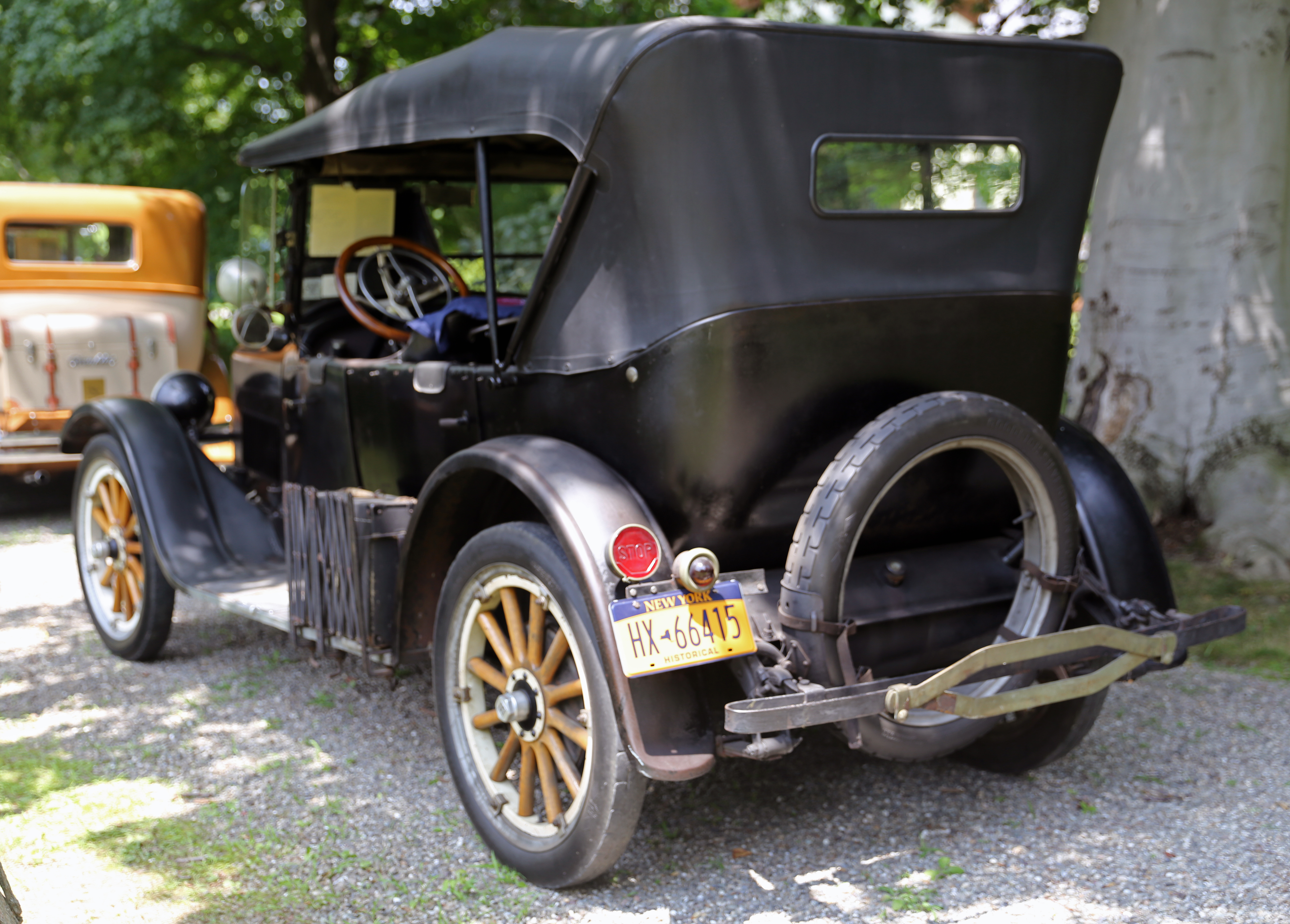 A 1922 Studebaker Light Six Touring Car (5-seater). 50-55hp and a 119-inch wheelbase.